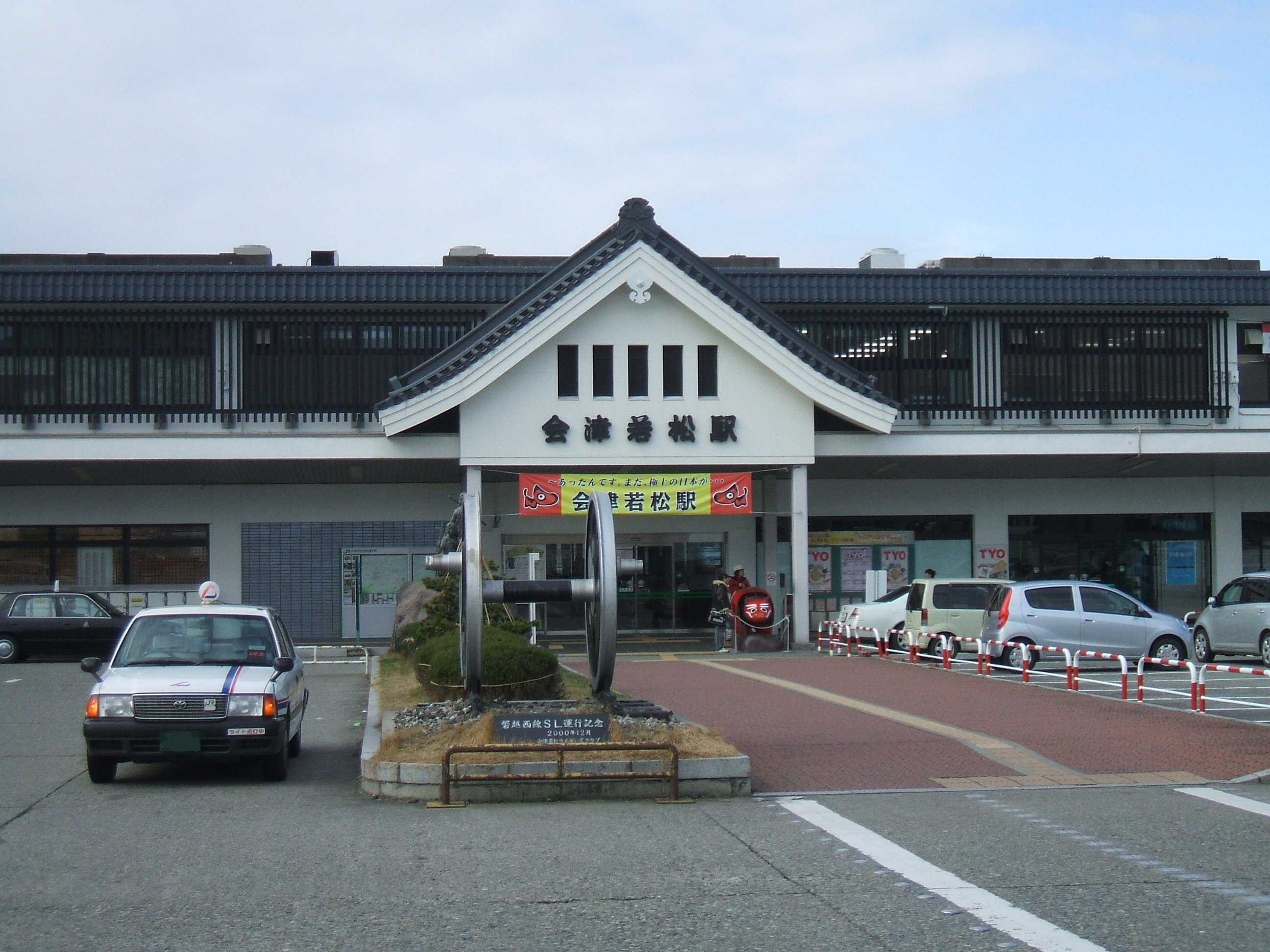 This is a landscape of Aizuwakamatsu satation in Aizuwakamatsu, Fukushima.